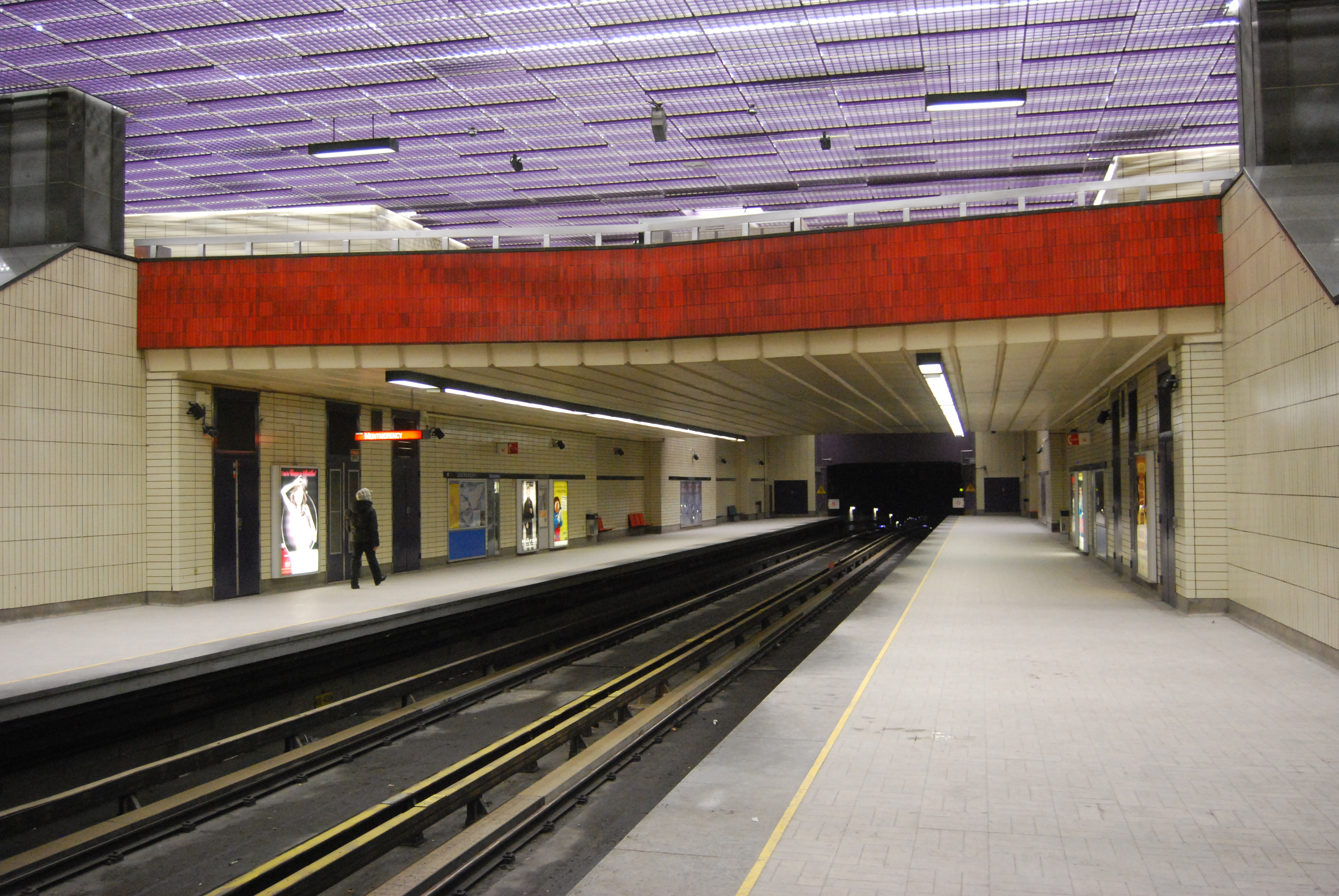 Sherbrooke Station